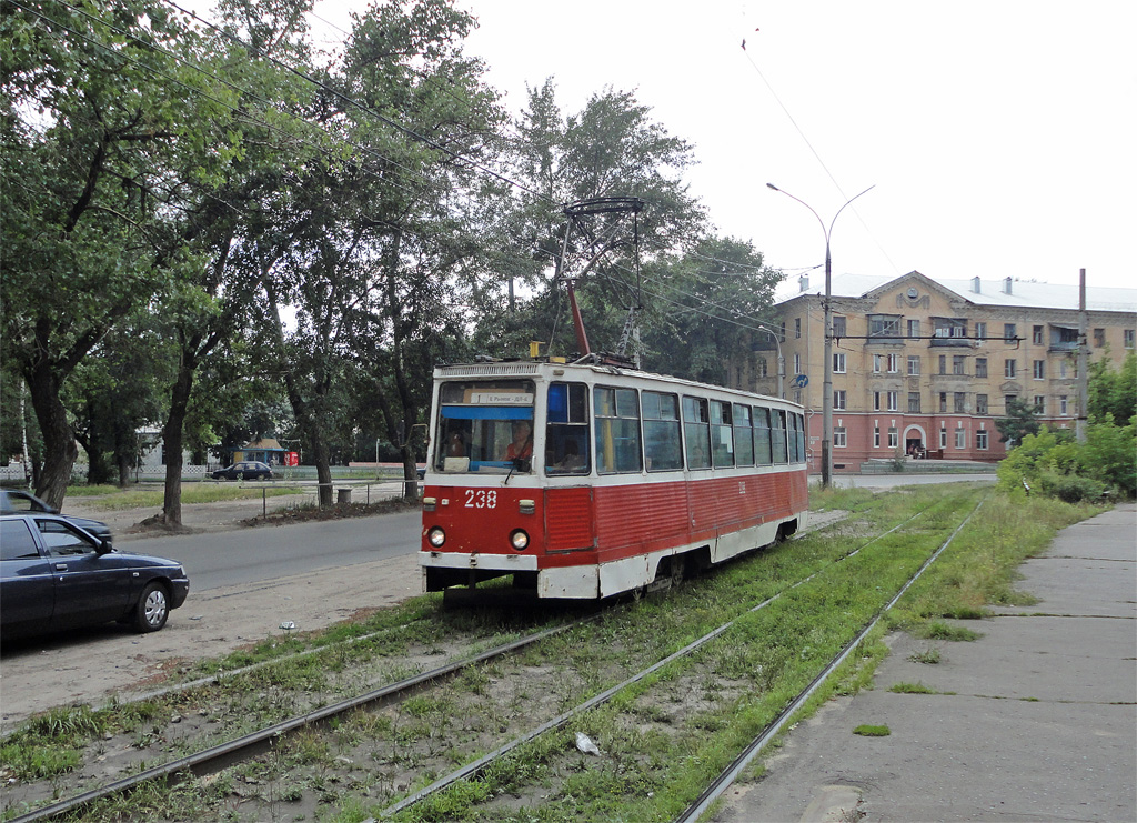 71-605A tram - the most numerous tram in the history - 14 369 units produced overall, but all of them worked only in USSR.